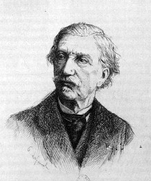 French painter and engraver Charles Jacque (1813-1894) by Paul Lafond (1847-1918)